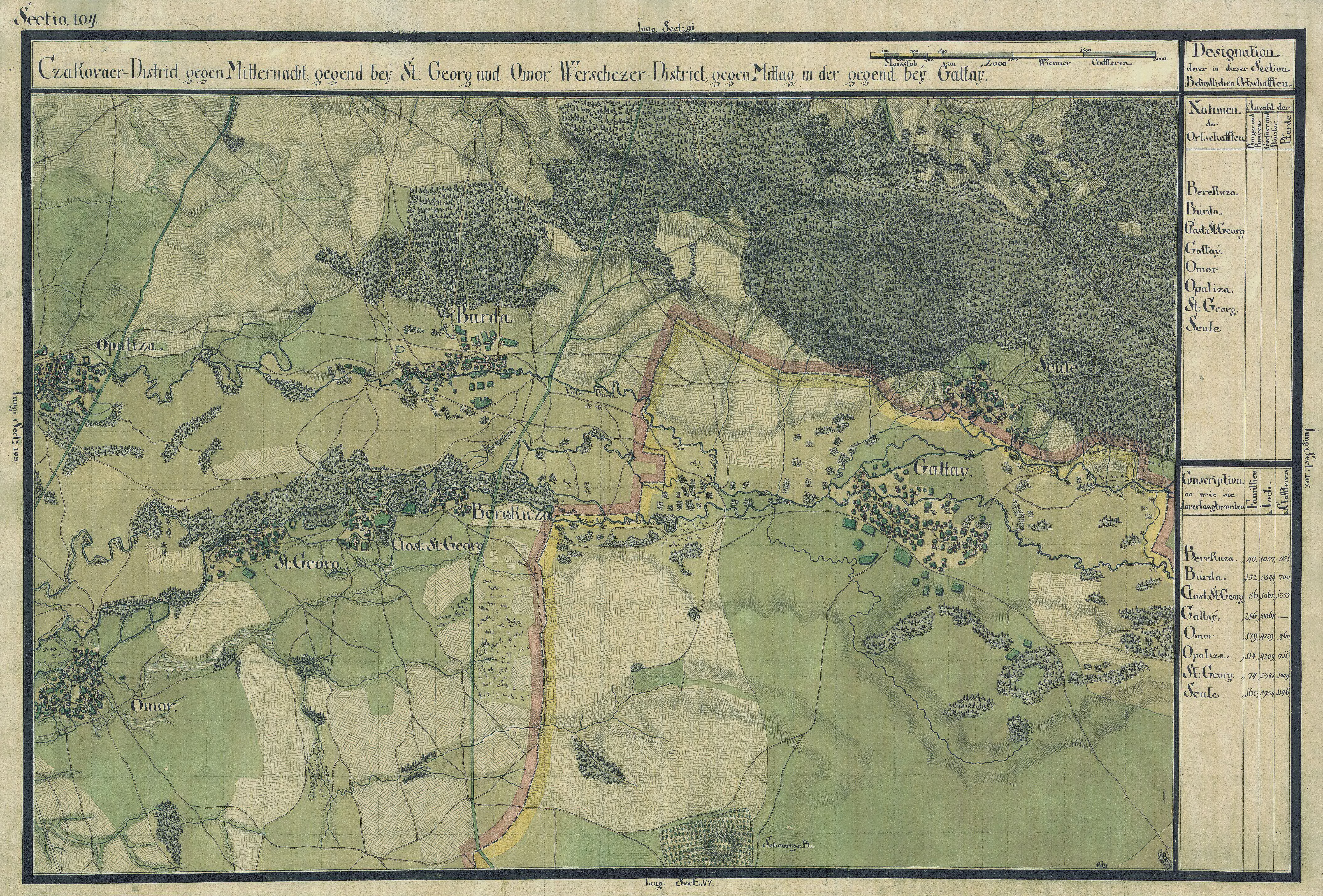 The Banat region in the cadastral maps: Josephinische Landesaufnahme, 1769-72. Josephinische Landaufnahme pg104